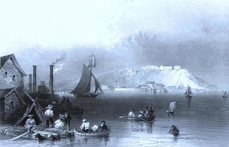 Print, Citadel of Kingston, by William Henry Bartlett (1809-1854), 1839-1842, Ink on paper, 22.1 x 28.5 cm